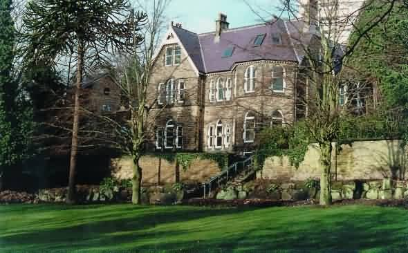 Photo taken by me on digital camera to the likeness of the official school photograph. Photo taken by me on digital camera to the likeness of the official school photograph.